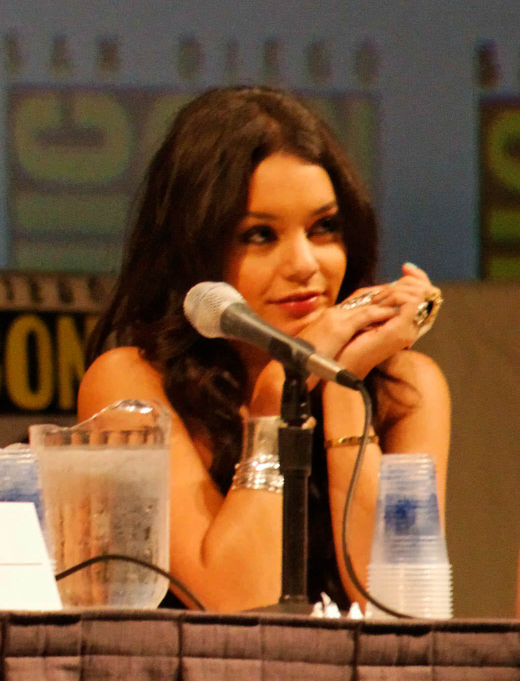 Vanessa Hudgens at the Comic-Con Day 3 2010.